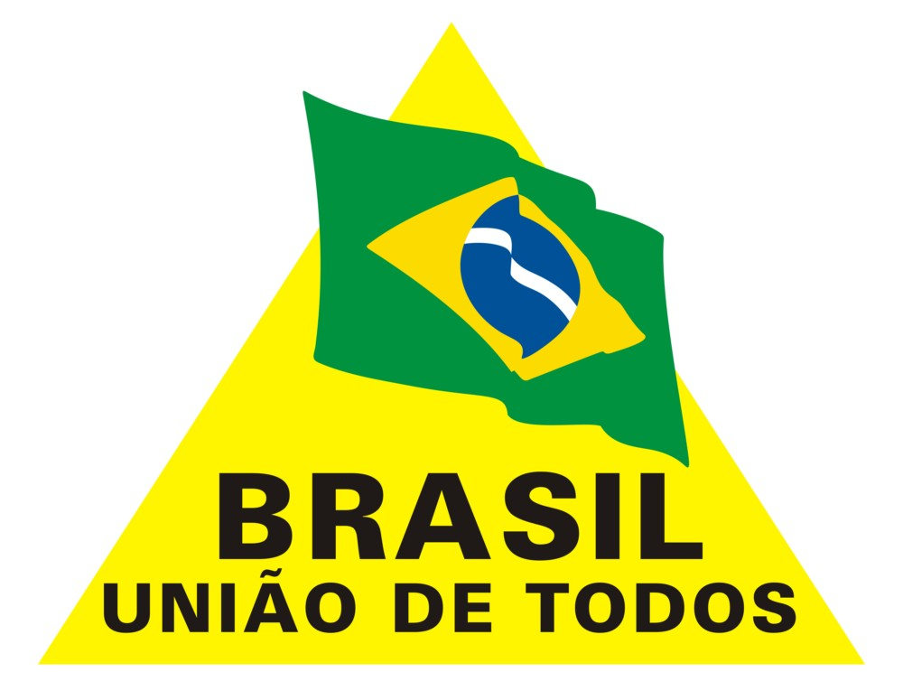 Image of the logo of the Franco government.